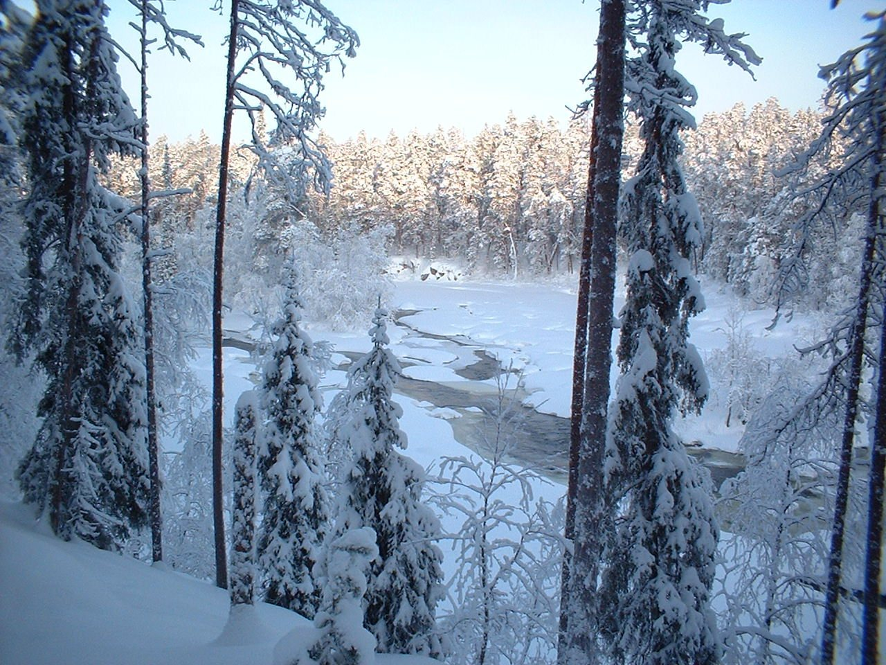 Oulankajoki, near Kiutaköngäs, Kuusamo, Finland